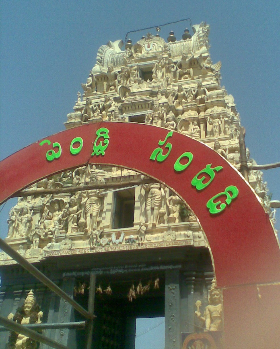 Marriage Welcome Board